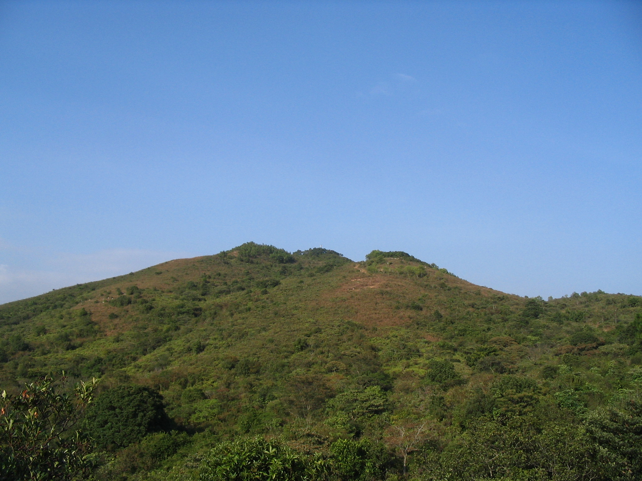 Photo of Tai Ngau Wu Teng